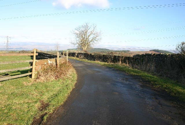 Bridge Over Disappeared Railway. The OS map clearly shows a dismantled line here, but the old cutting has been filled up the road level. Compare with NY5425 where an unmarked line is clearly visible on the ground.